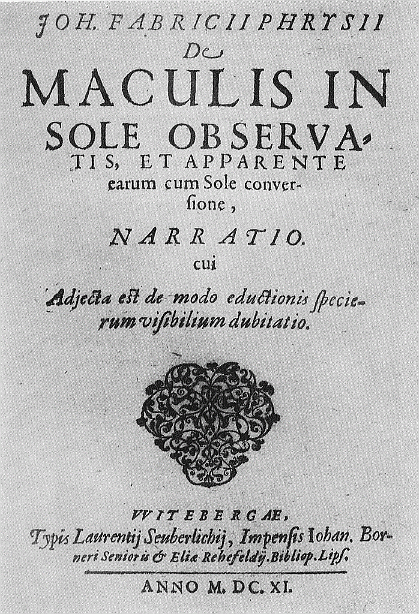 Title page of the small pamphlet about sunspost published in 1611 by Johann Fabricius.